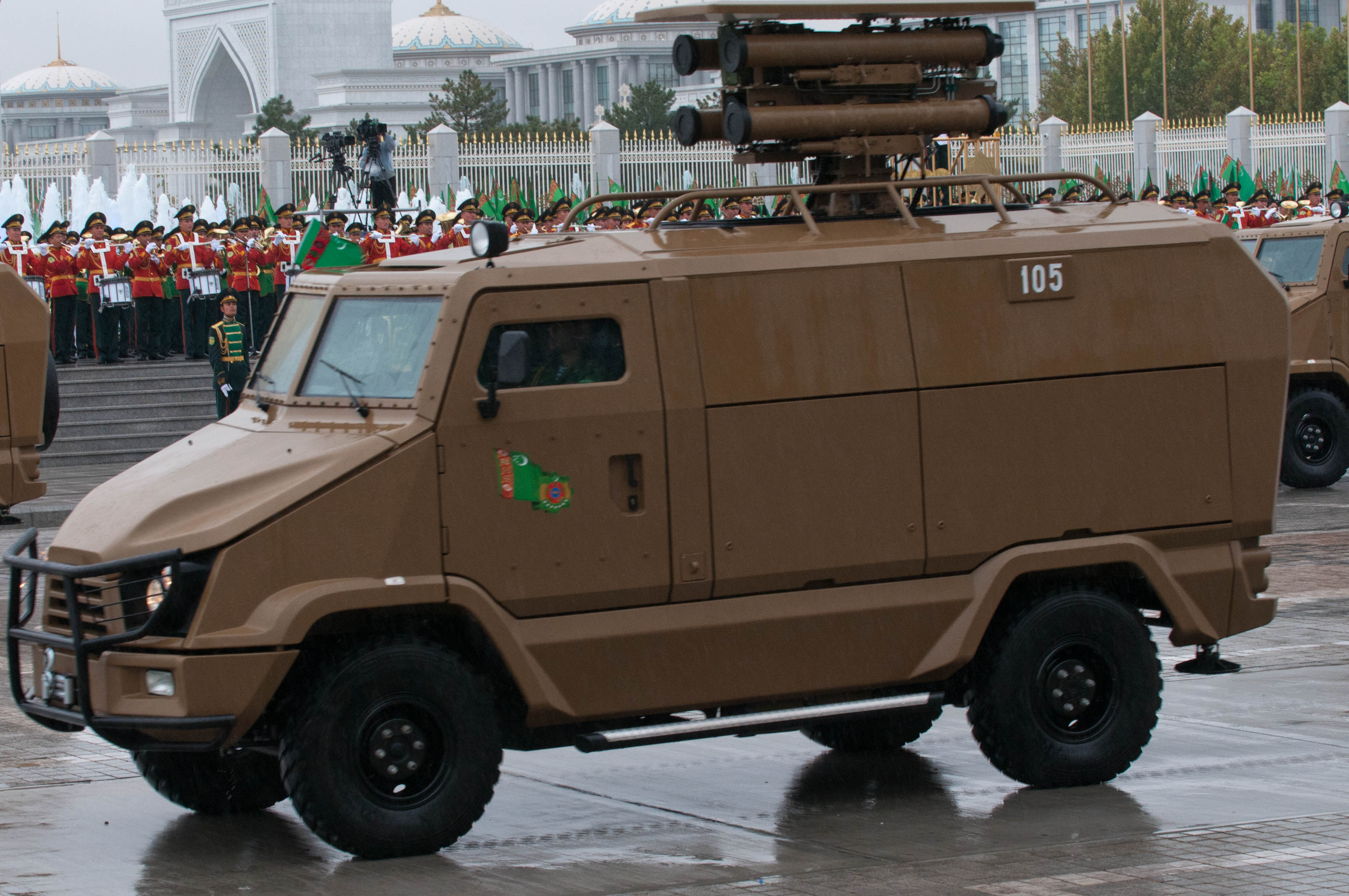 Celebrating the 20th year of independence in Turkmenistan